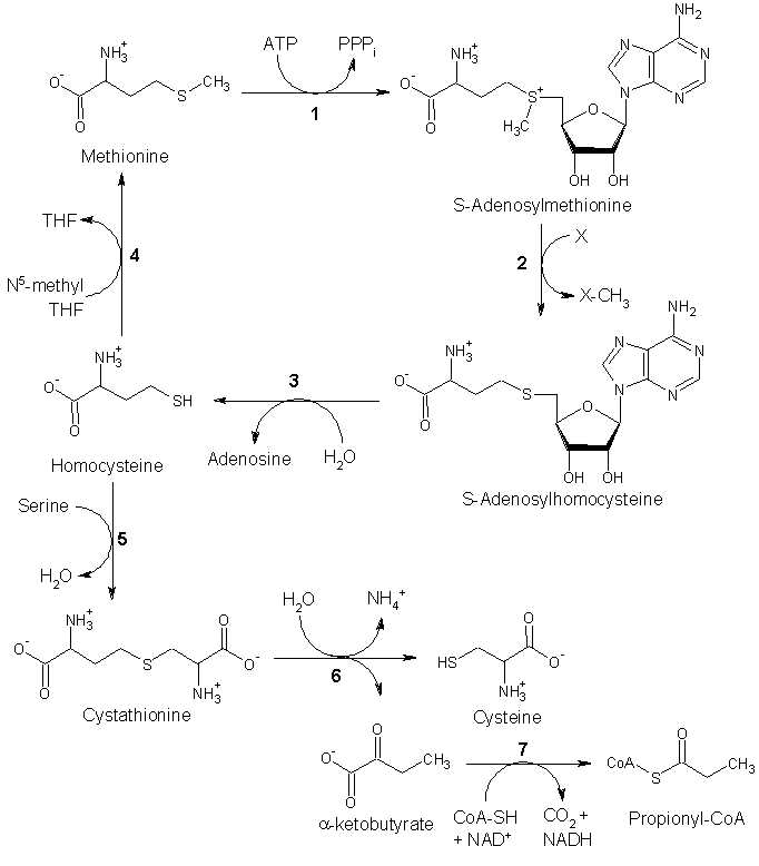 Created by Inositol using Chemsketch 8.0 Freeware